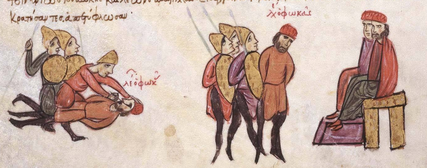 Capture and blinding of Leo Phokas the Elder, and his presentation to Romanos Lekapenos